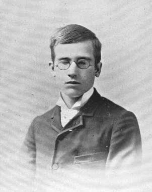 Photographic image of American poet Clarence Hawkes (1869-1954). From The Magazine of Poetry and Literary Review, vol. 7, no. 7 (1894), p. 304